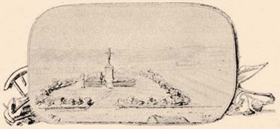 The Withe cross, monument of the Battle of Saint Gotthard (1664)